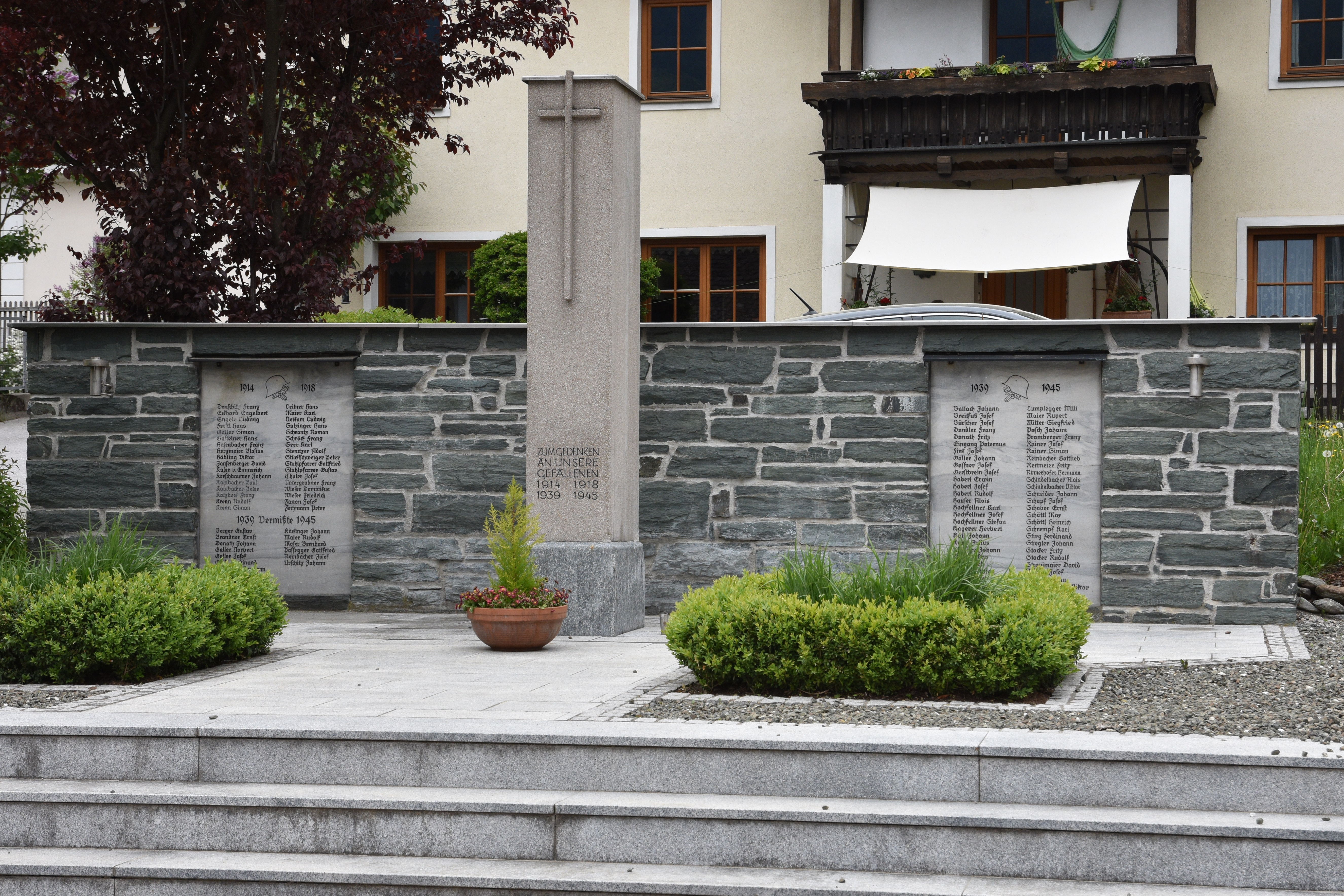 War Memorial Gaishorn